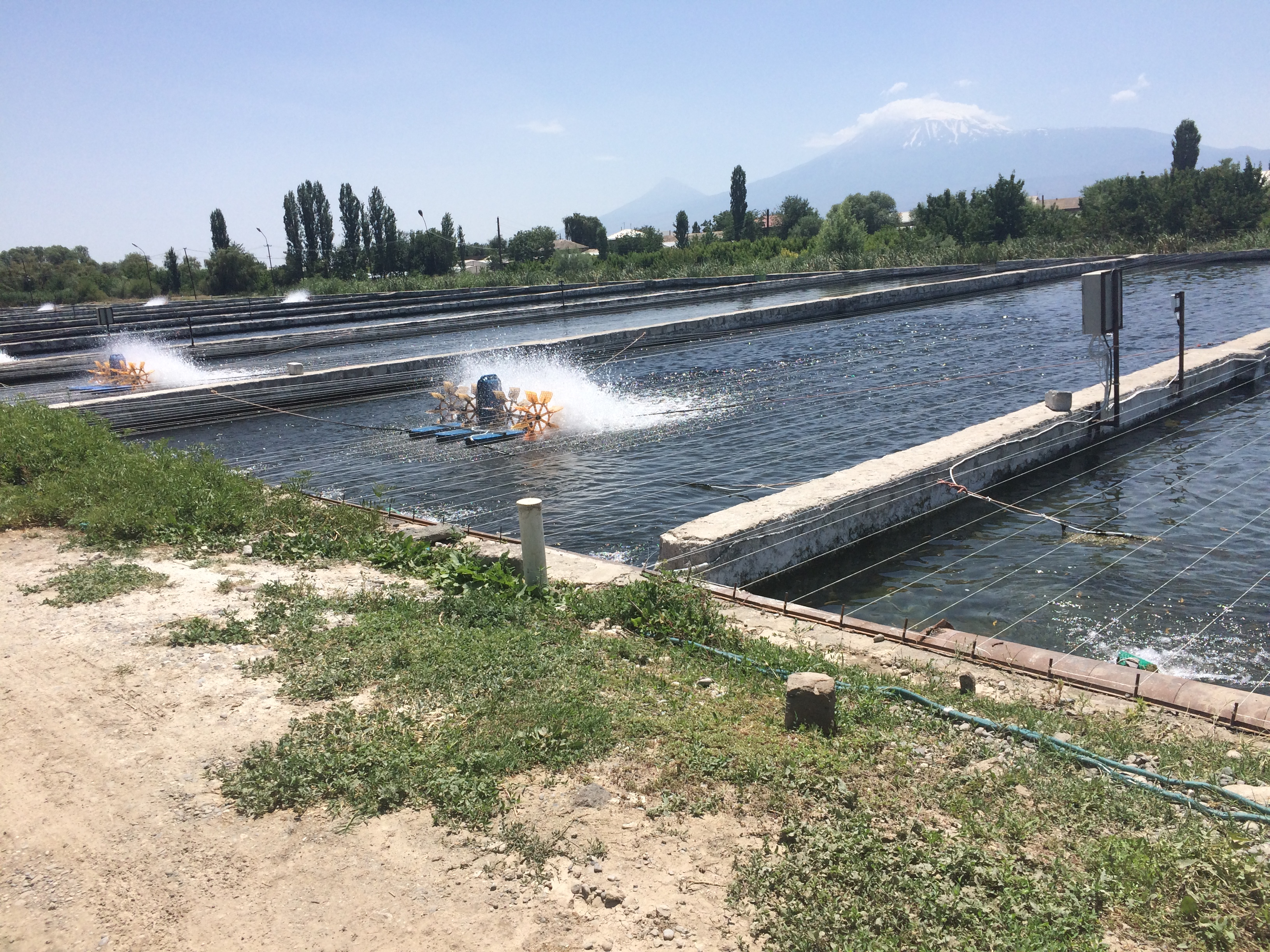 Fish farm in Armenia